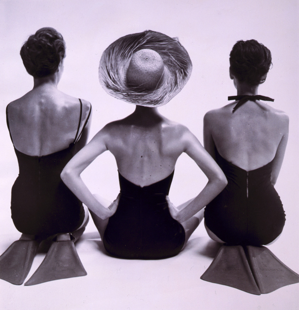 Back view of fashion models in swim suits, two kneeling wearing swim fins, and one seated. Photograph published in Harper's Bazaar, January 1950.